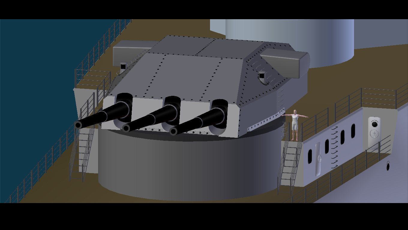 Angled shot of the rear main 11.3 inch (28 CM) artillery turret onboard the D-Class cruiser Ersatz Hessen with Human figure to demonstrate scale.